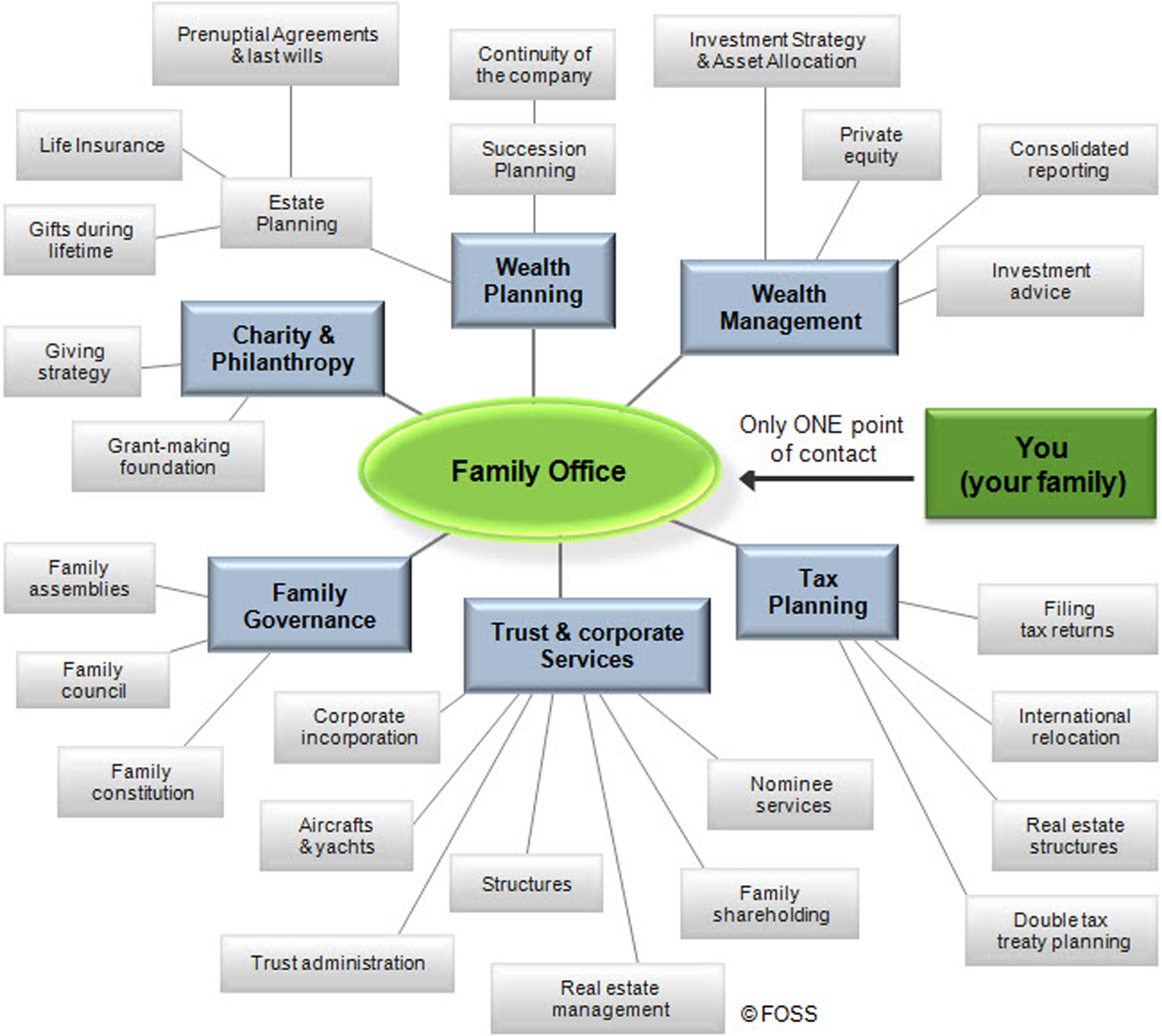 Overview of services which are offered by family offices in Switzerland or elsewhere in the world..